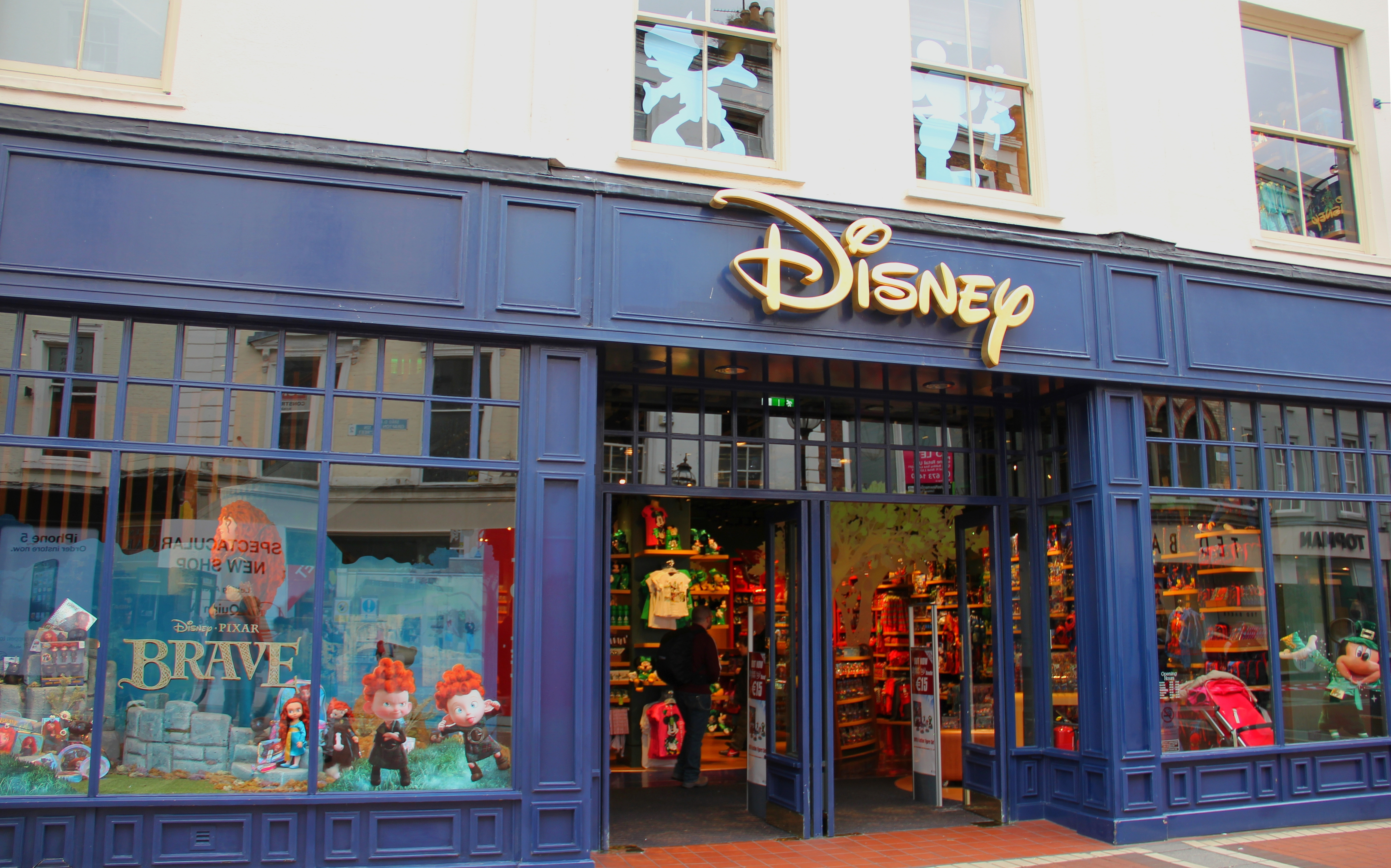 Disney Store in Grafton Street in Dublin, Ireland.